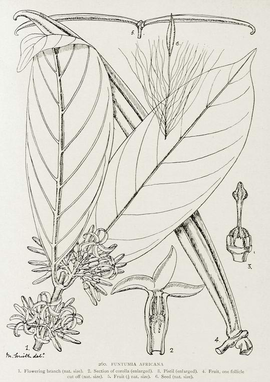 Funtumia africana. 1. Flowering branch (nat. size). ; 2. Section of corolla (enlarged). ; 3. Pistil (enlarged). ; 4. Fruit, one follicle cut off (nat. size). ; 5. Fruit (1/3 nat. size). ; 6. Seed (nat. size)